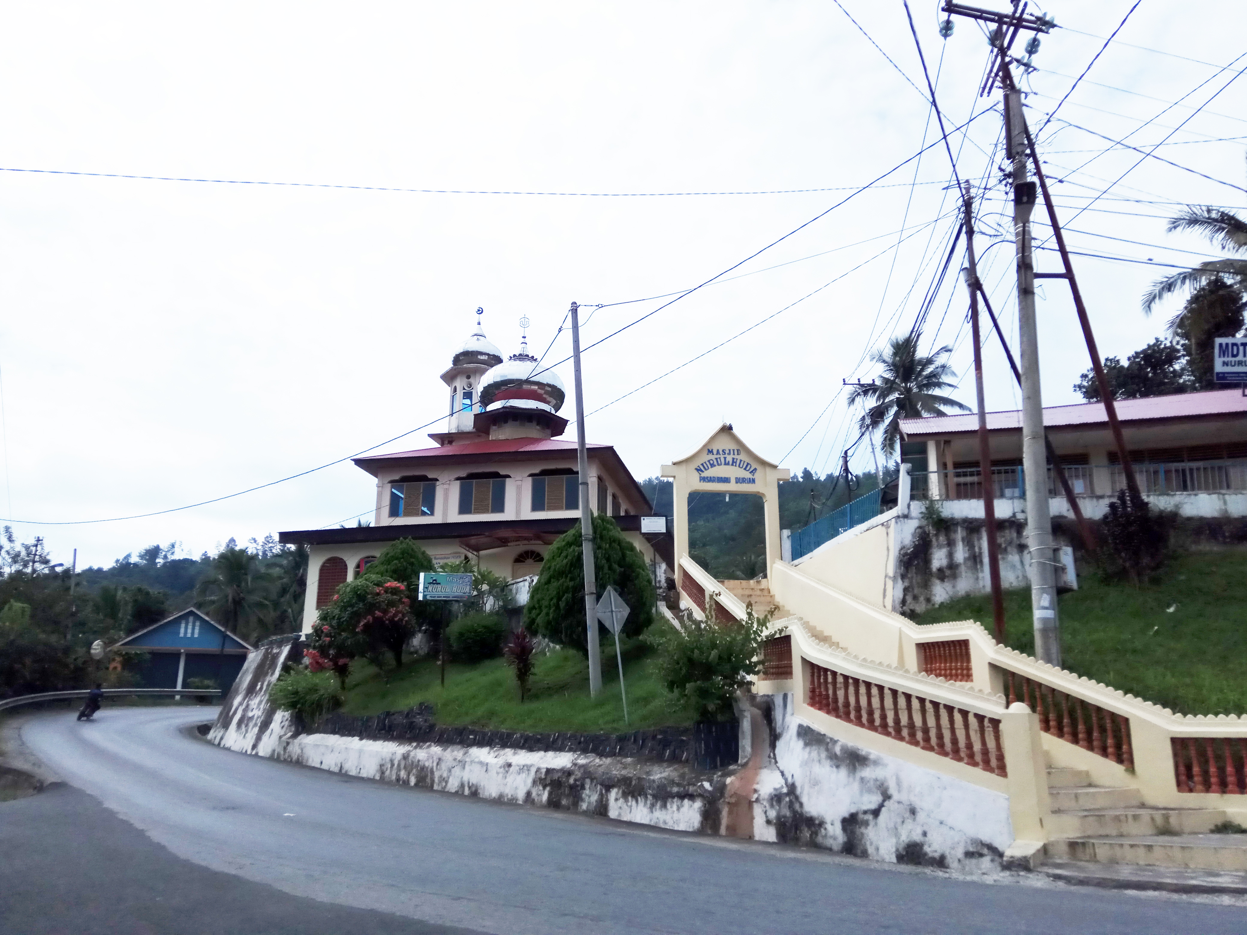 Photograph of Nurul Huda Mosque in Pasar Baru Durian, Barangin, Sawahlunto